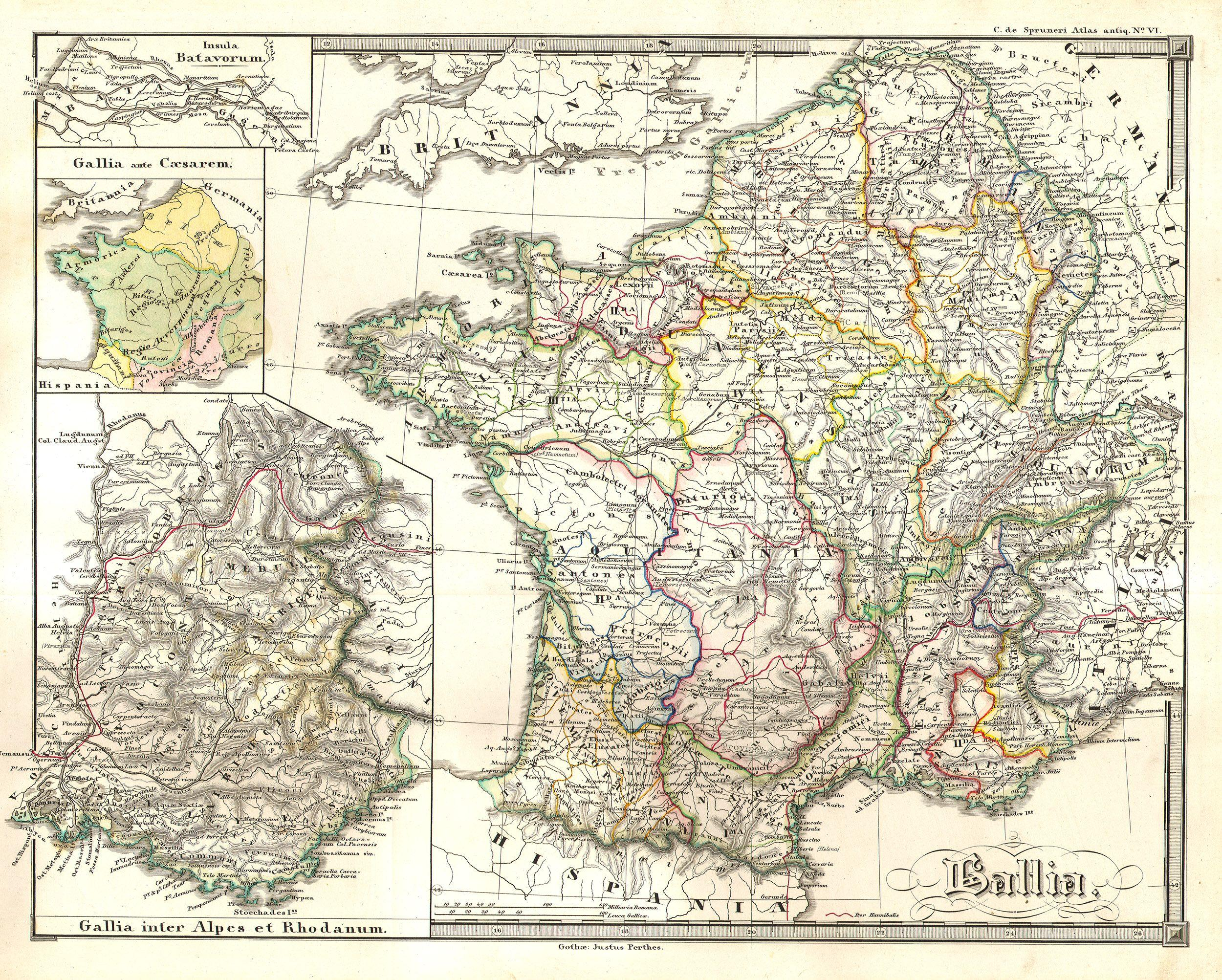 This fine hand colored map is a steel plate lithograph depicting France, Gaul, or Gallia in ancient times. There are large insets of Batavorum and France/Gallia after Caesar. It was published in 1855 by the legendary German cartographer Justus Perthes. Issued as part of the “Spruneri Atlas Antiquarie”.